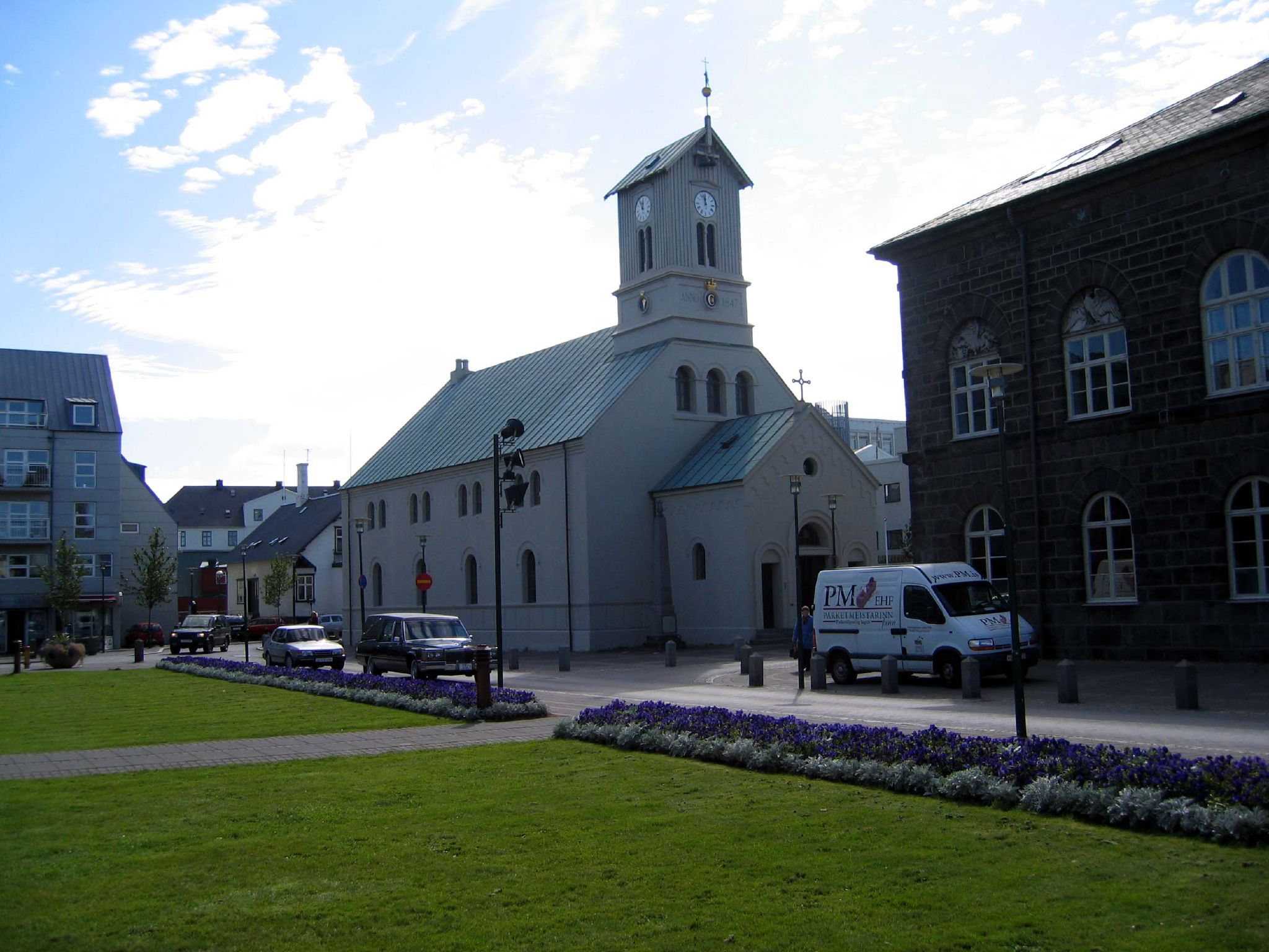 Church on Austurvollur Square